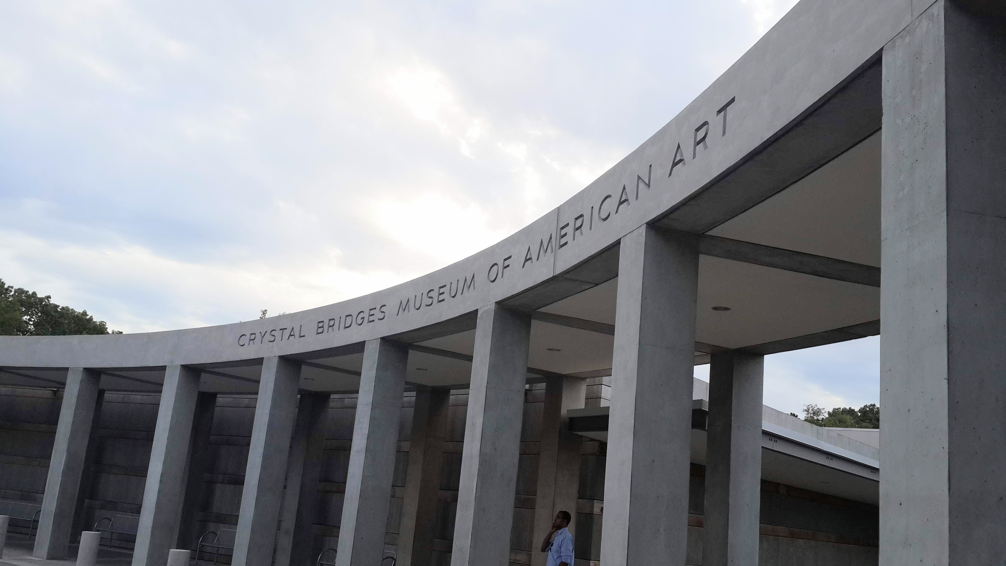 Front of the Crystal Bridges Museum of American Art, in Bentonville, Arkansas